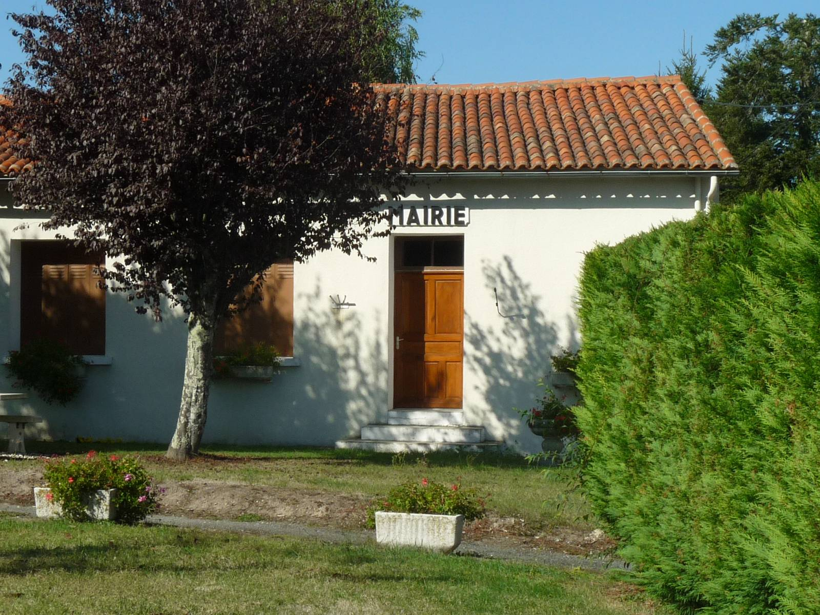 town hall